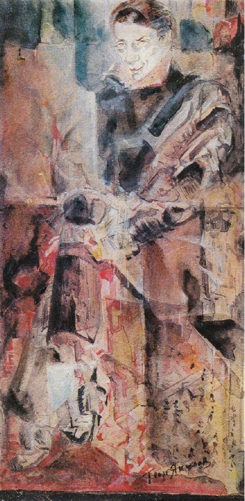 G. Yakulov. Portrait of the poet Ryurik Ivnev Cardboard, gouache, watercolor. 27,2 × 13,7cm The painting is located in the National Gallery of Armenia.